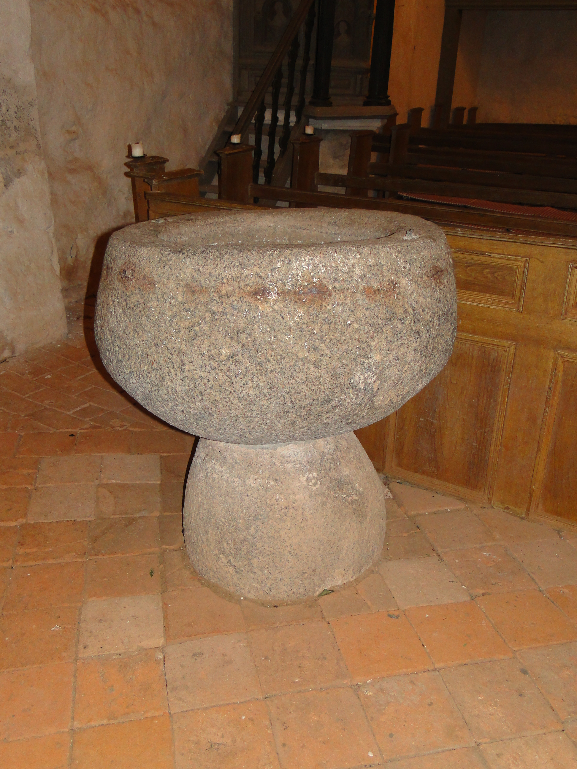 Church in Zehna, district Rostock, Mecklenburg-Vorpommern, Germany